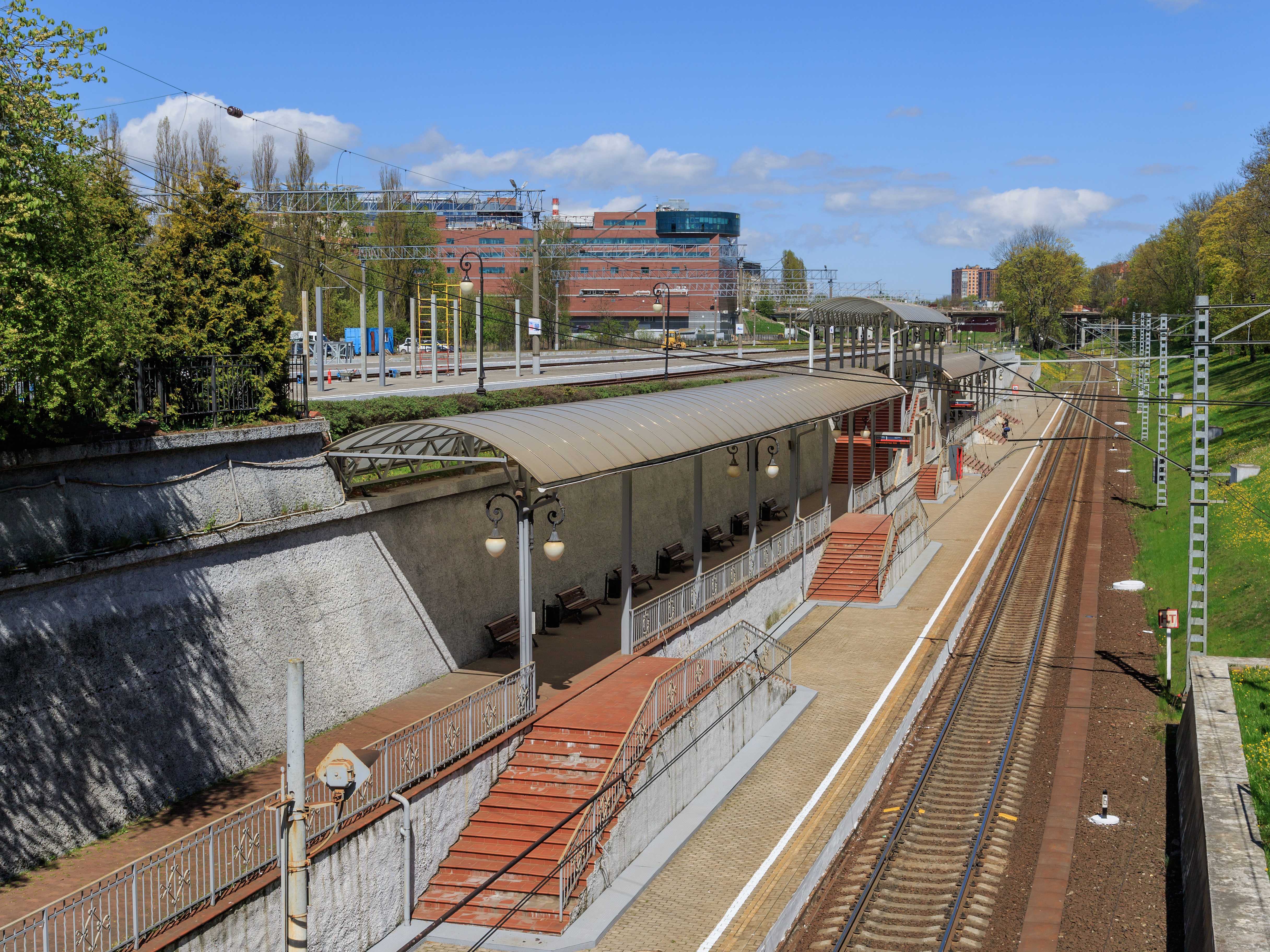 North railway station in Kaliningrad formerly Königsberg, Kaliningrad Oblast (Russia).